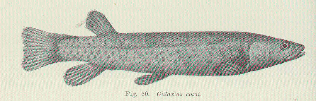 Galaxias coxii, Synonym of Galaxias brevipinnis Günther 1866 Subject: Galaxiidae, Galaxias Tag: Fish